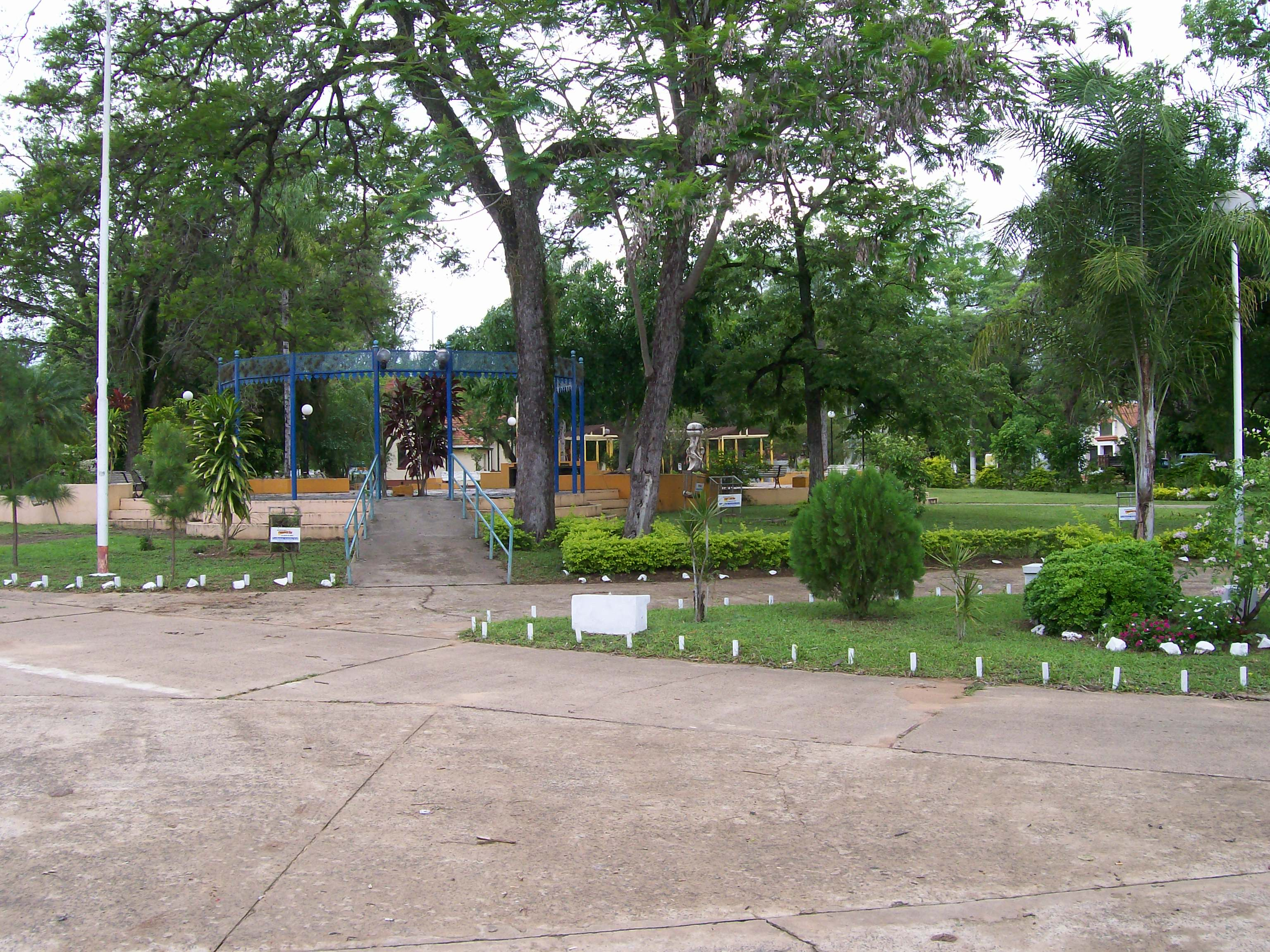 Square in Isla del Cerrito town, Chaco Province, Argentina. It's is situated in the fields that belonged to leprosy hospital, which existed until the 1960s.